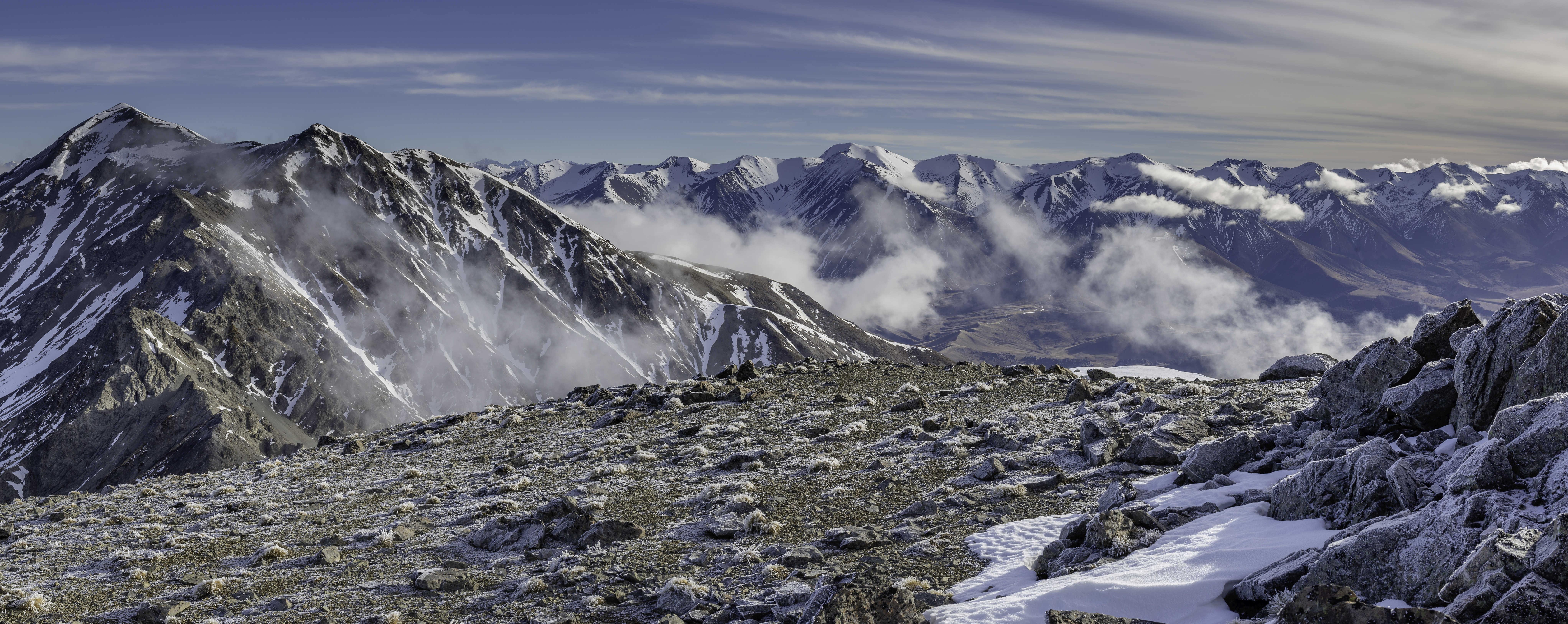 View to Castle Hill Peak from Red Peak. Torlesse Range, Canterbury, New Zealand